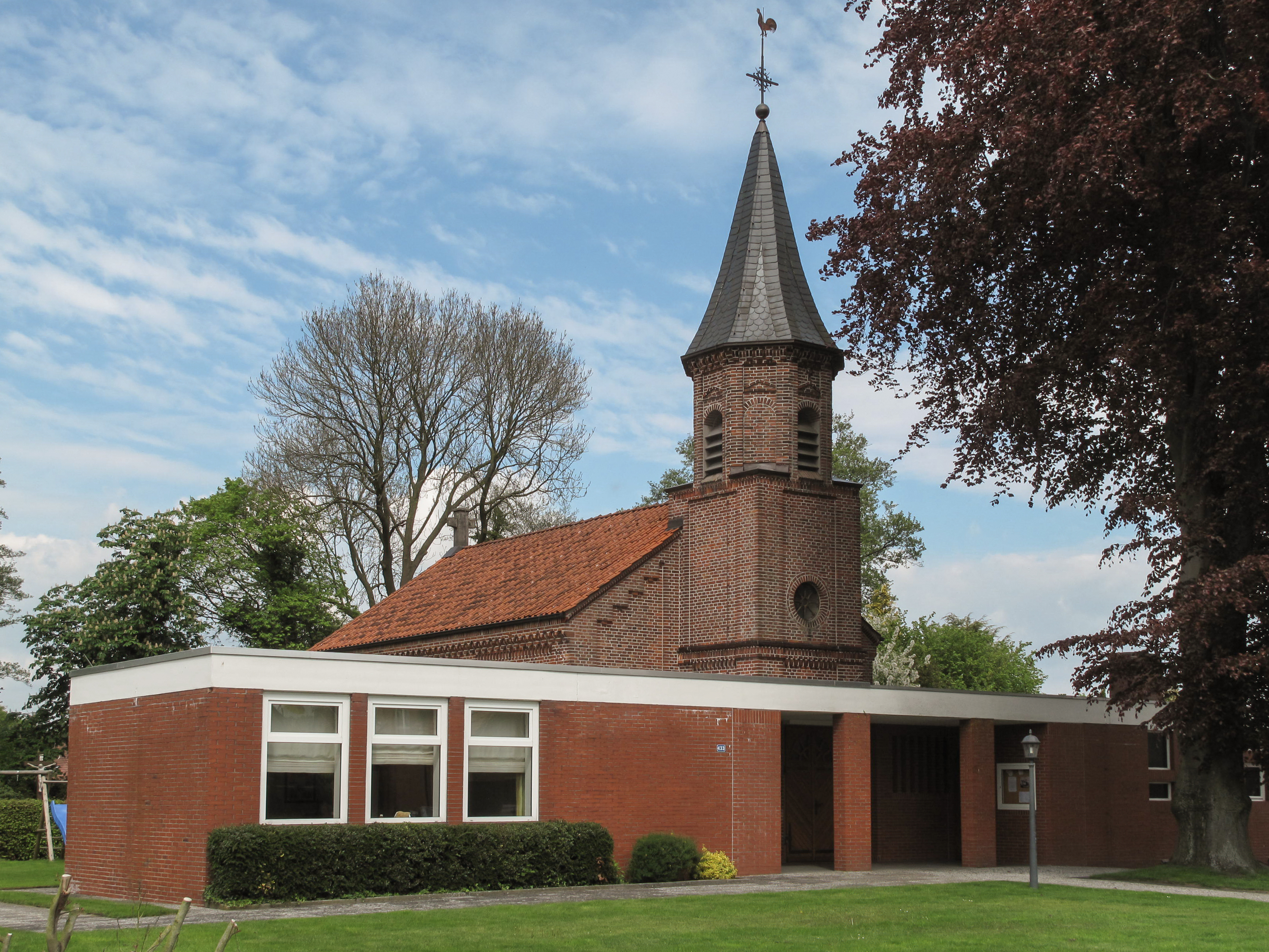 Augustfehn, church: Katholische Kirche Johannes der Täufer